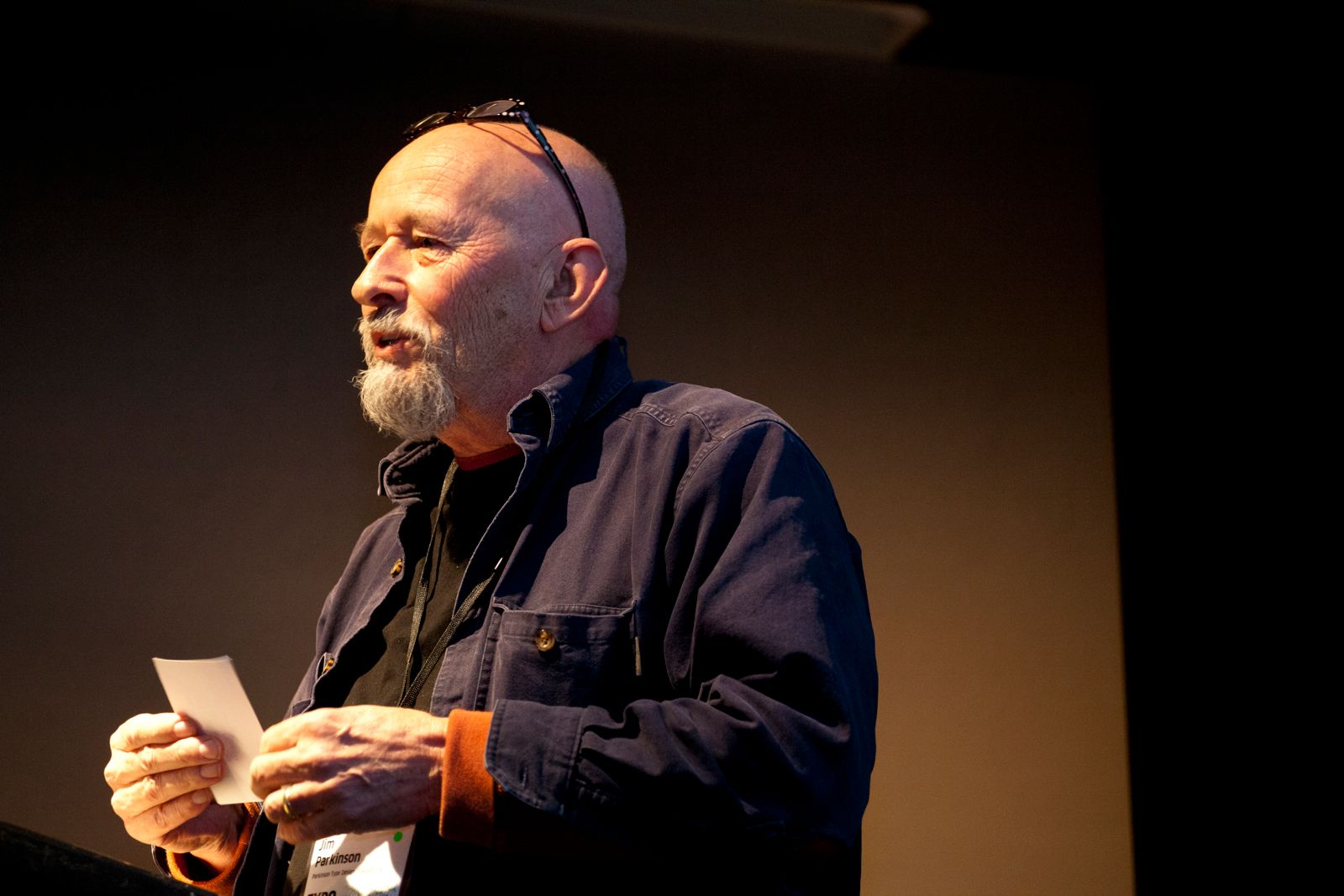 Jim Parkinson speaking at the 2012 TYPO conference in San Francisco